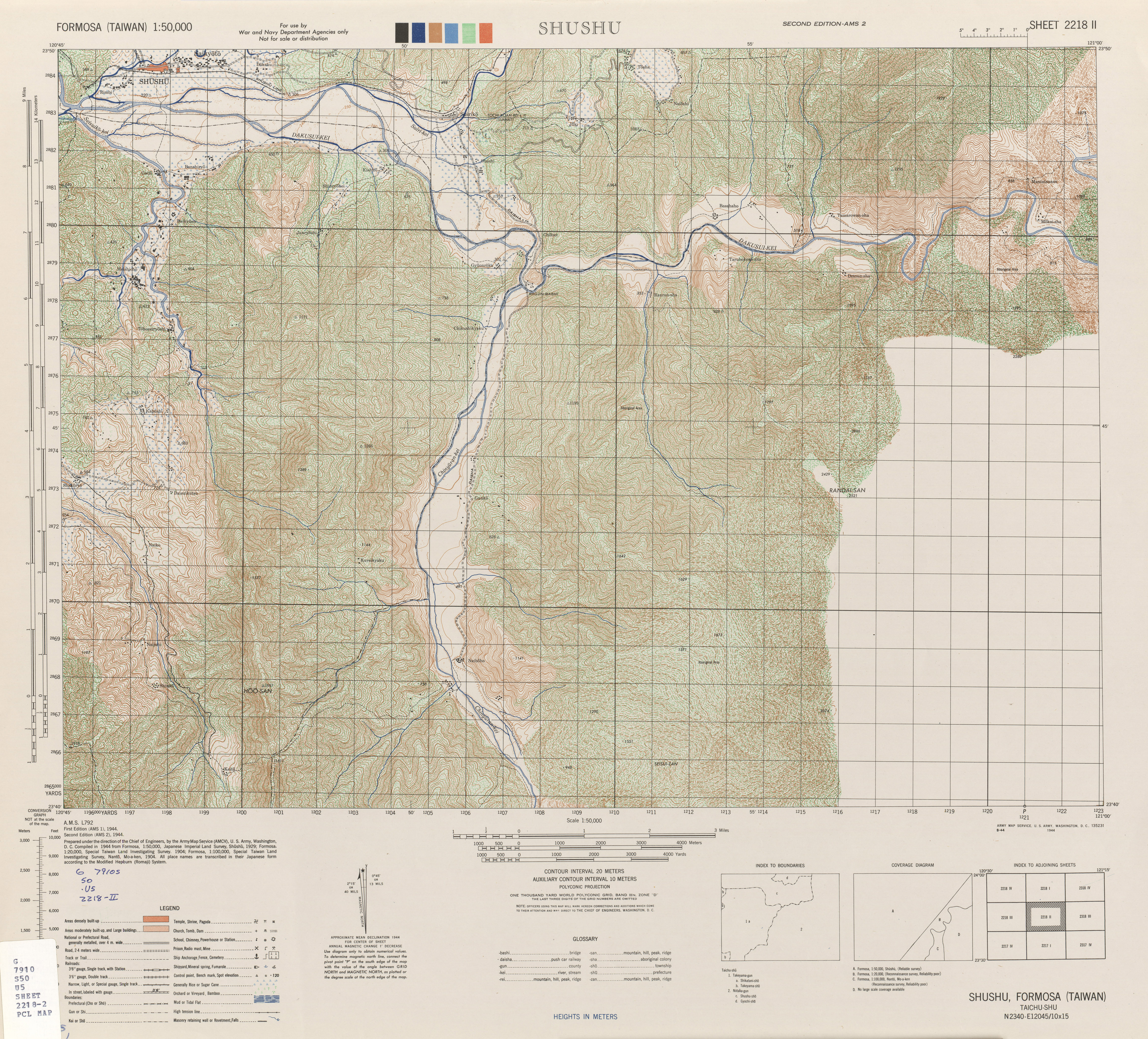 Map from Formosa (Taiwan) 1:50,000 AMS Series L792